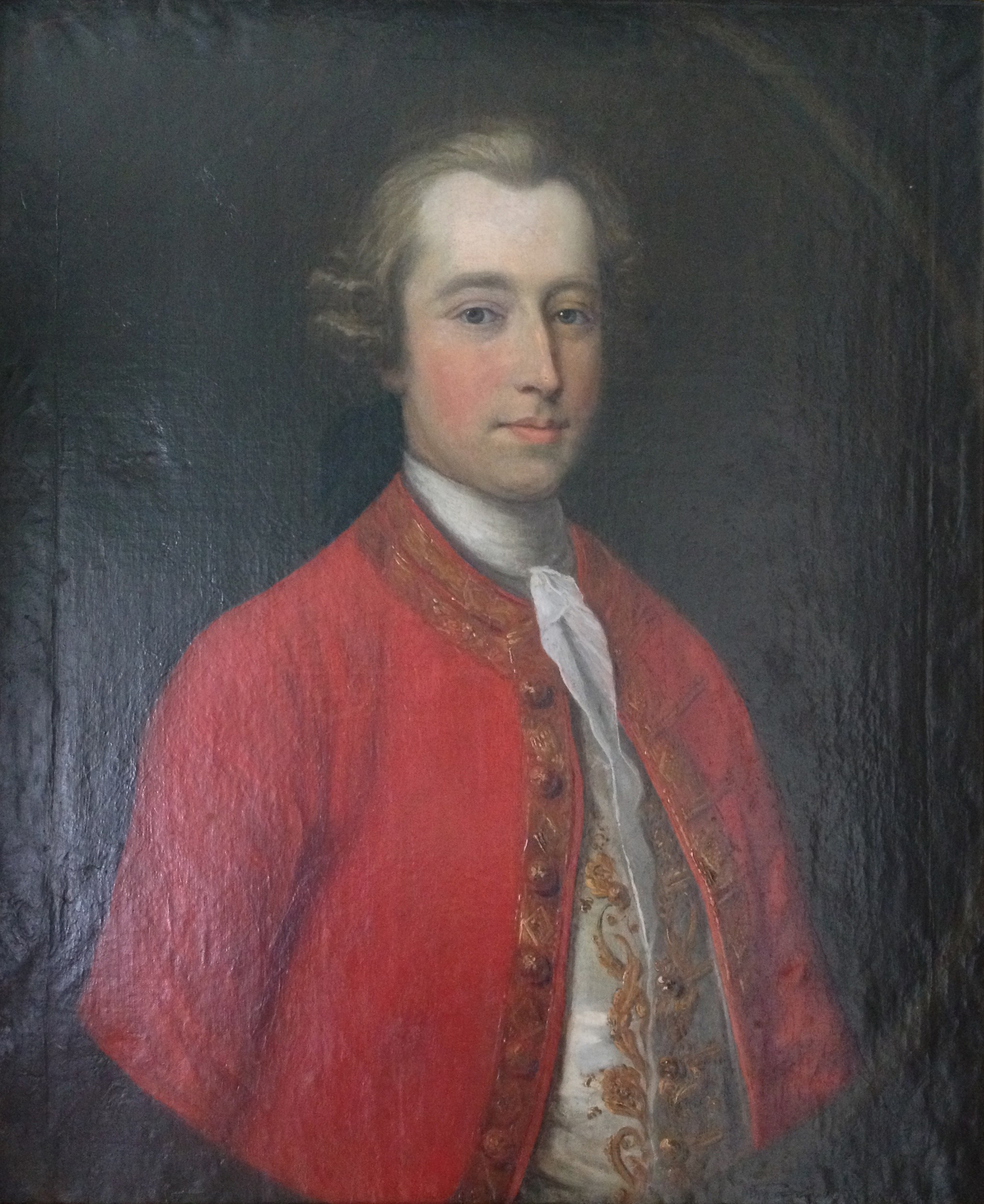 Thomas Fitzgerald, 22nd Knight of Glin by Philip Hussey